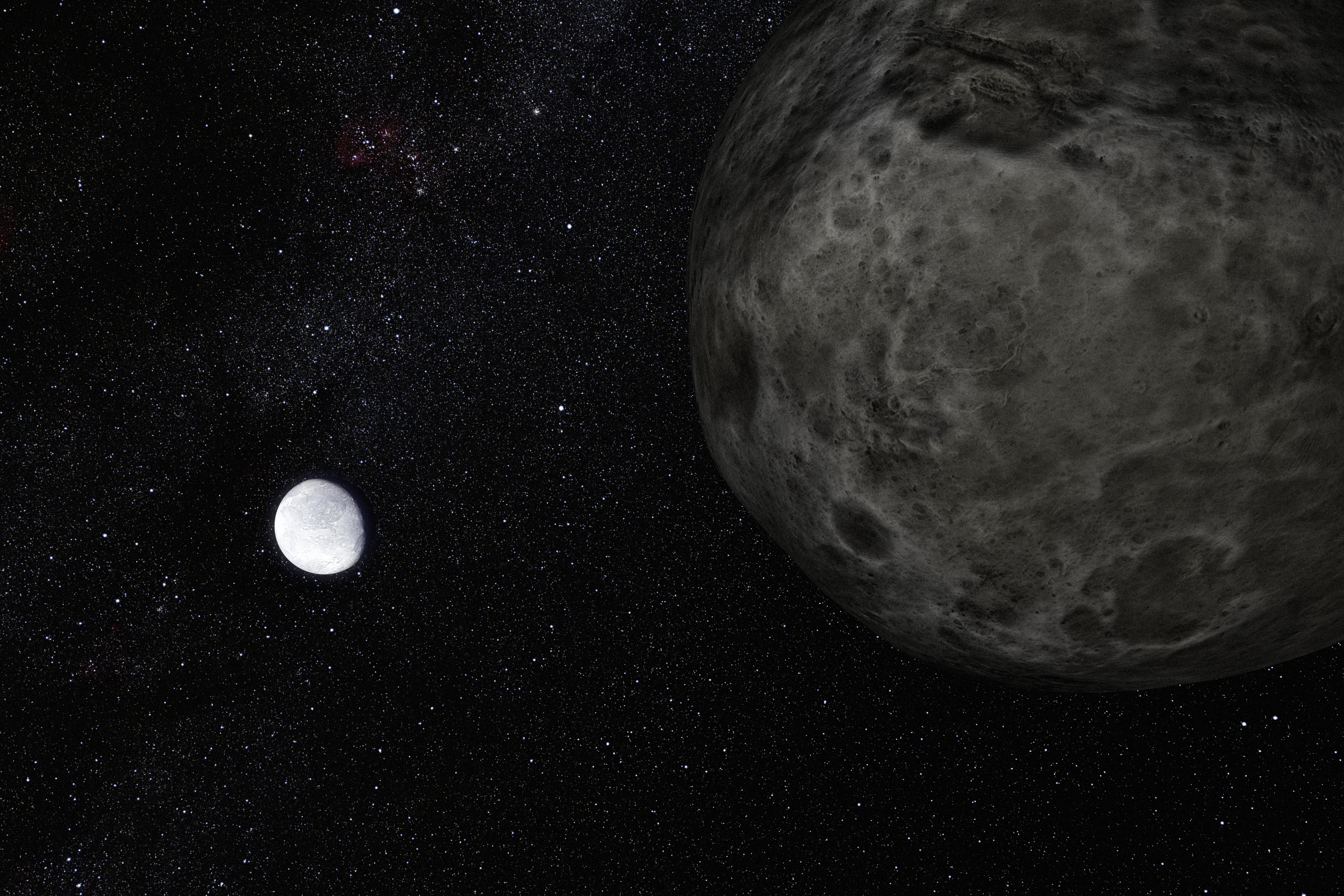 This artist's impression shows the distant dwarf planet Eris in the distance with its moon Dysmonia in the foreground. New observations have shown that Eris is smaller than previously thought and almost exactly the same size as Pluto. Eris is extremely reflective and its surface is probably covered in frost formed from the frozen remains of its atmosphere. Dysnomia appears to be a darker and less reflective body.